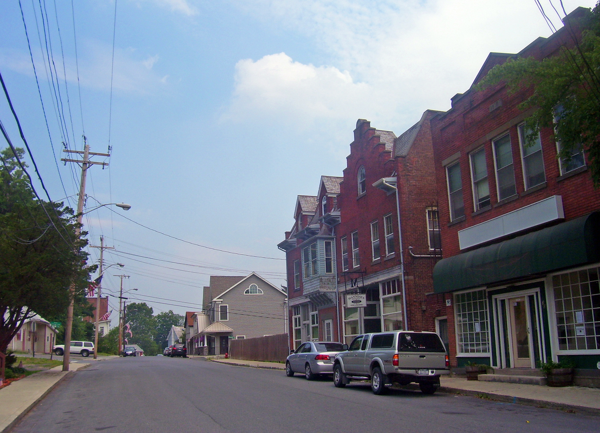 Downtown Milton, NY, USA